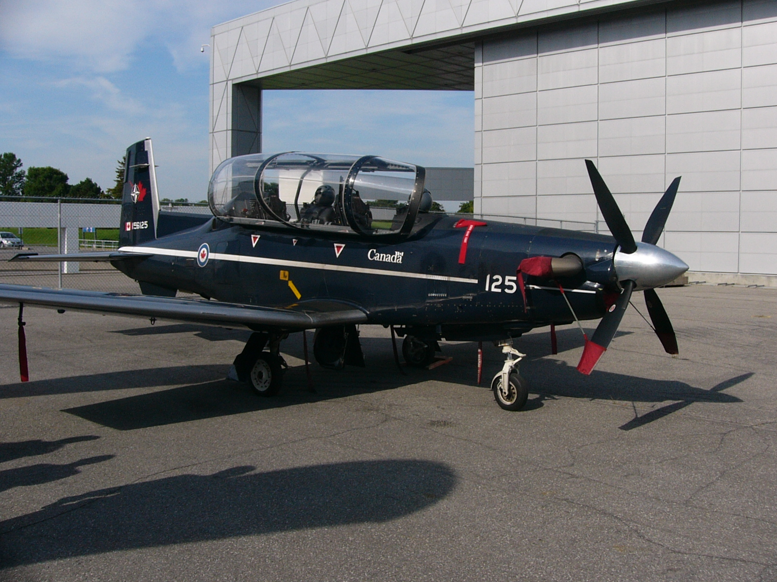 Beechcraft CT-156 Harvard II